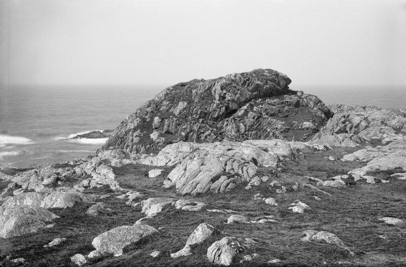 Photograph of Dùn Beic, on the Inner Hebridean island of Coll. The original source gives the caption: Caption General View from the south east.